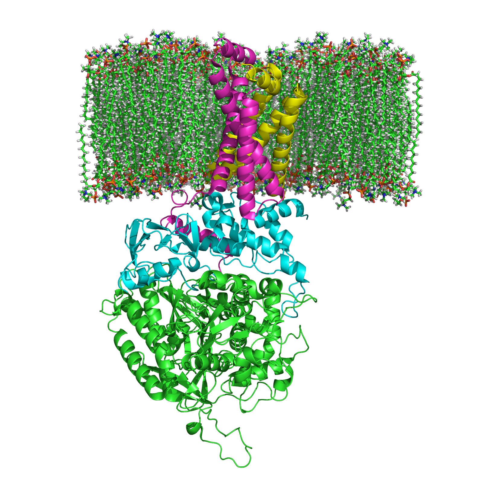 By Richard Wheeler (Zephyris) 2006. Category:Protein images